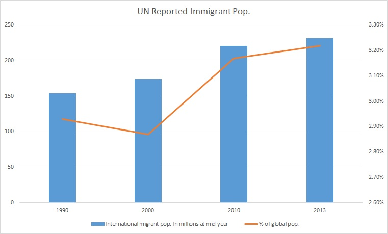 UN Stats of global immigrant population as a proportion of the total global population